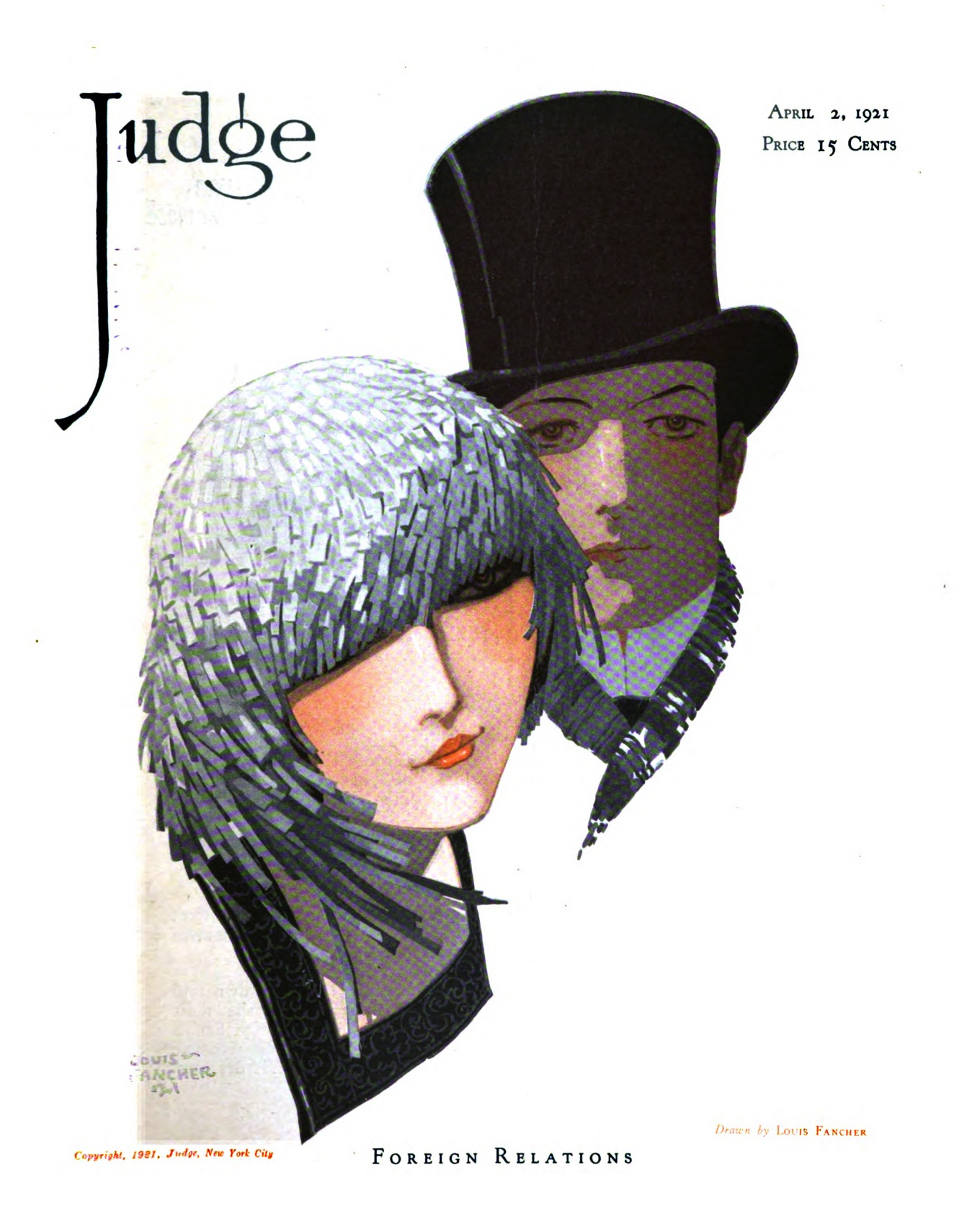 Judge Magazine Cover (2 Apr 1921)